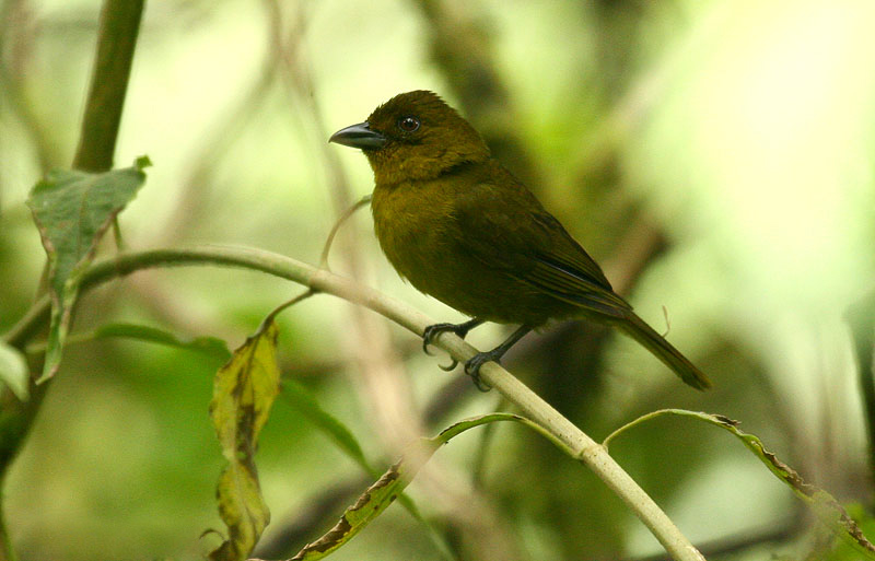 Olive Tanager (Chlorothraupis carmioli) also known as Carmiol's Tanager at Virgen del Socorro, Costa Rica.